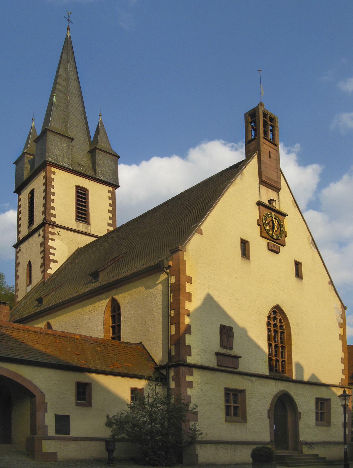 parish church St. Peter and Paul, Gemünden am Main / Germany